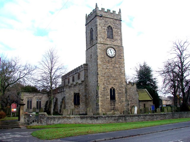 All Saints' parish church, Lanchester, County Durham, seen from the west